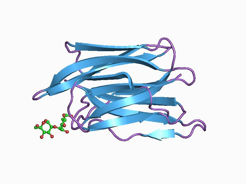 Cartoon representation of the molecular structure of protein registered with 1c3n code.